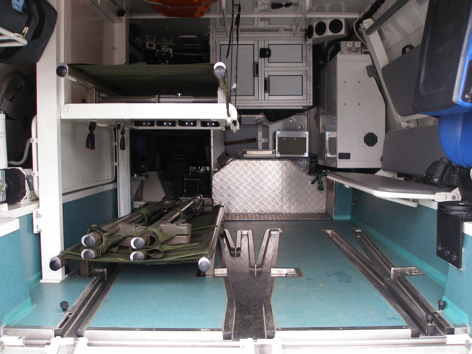 Polish military ambulance "Ryś MED" (indoor view)